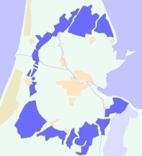 Defence Line of Amsterdam